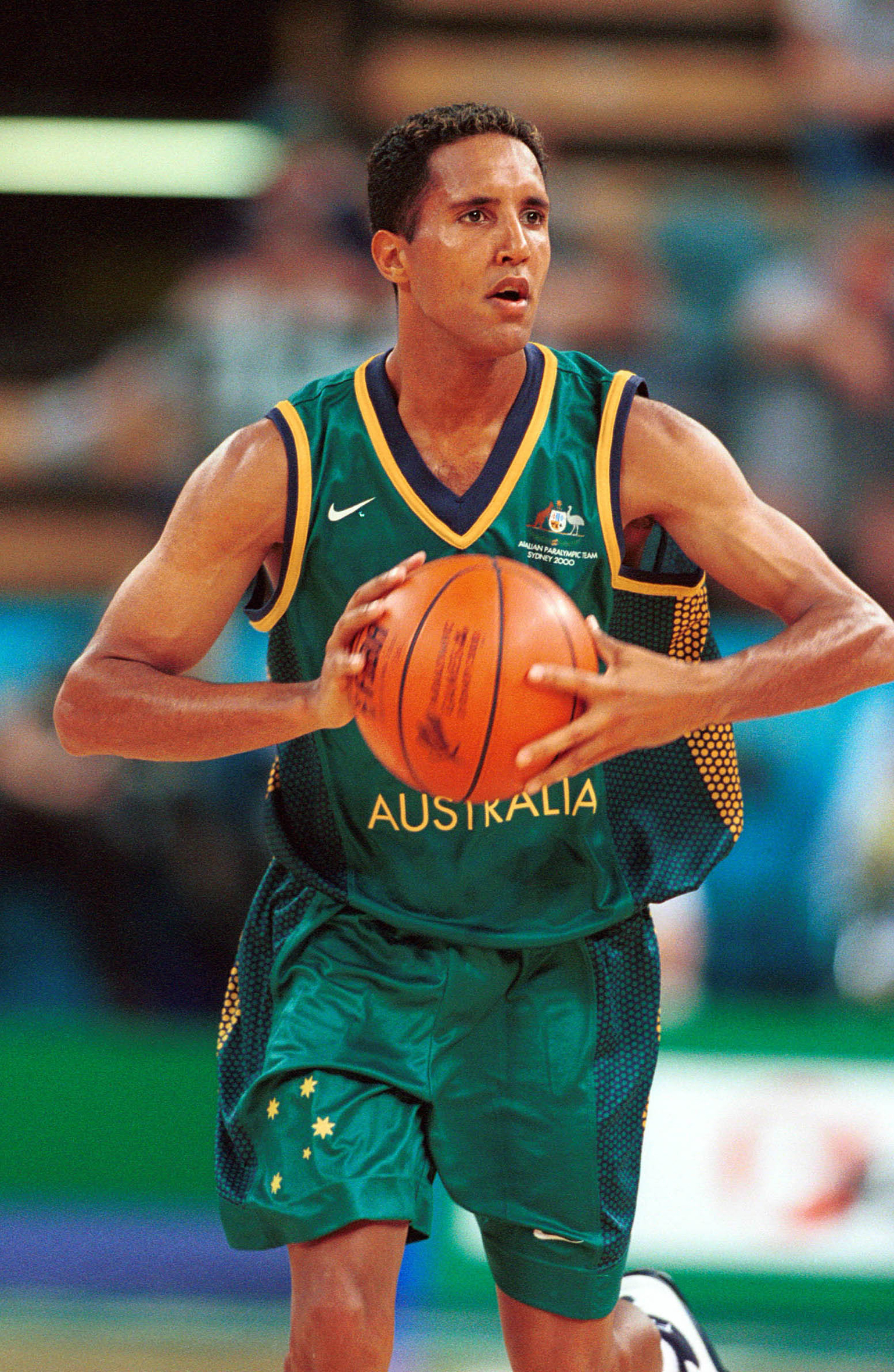 Australian ID basketballer Nicholas Maroney with the ball during 2000 Sydney Paralympic Games match